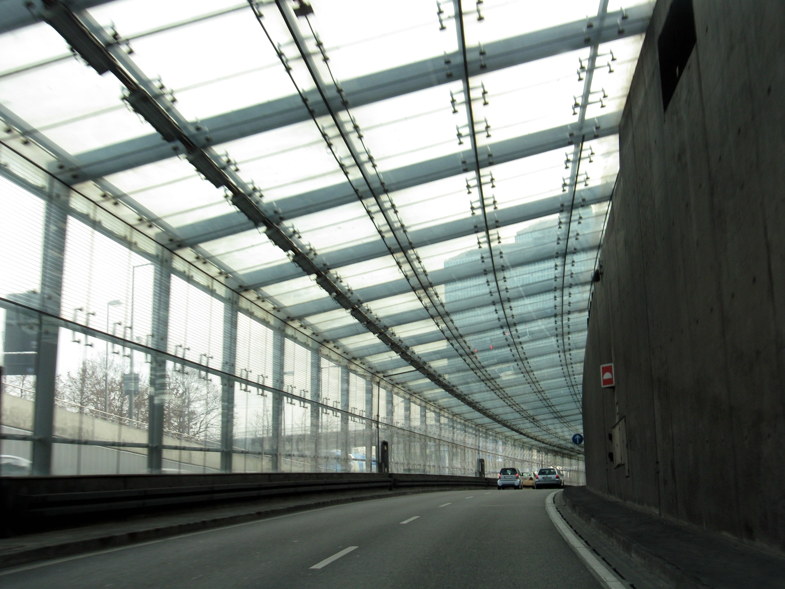 Glass enclosure of the southern carriageway at the eastern end of the Petueltunnel (Munich, Bavarian, Germany)